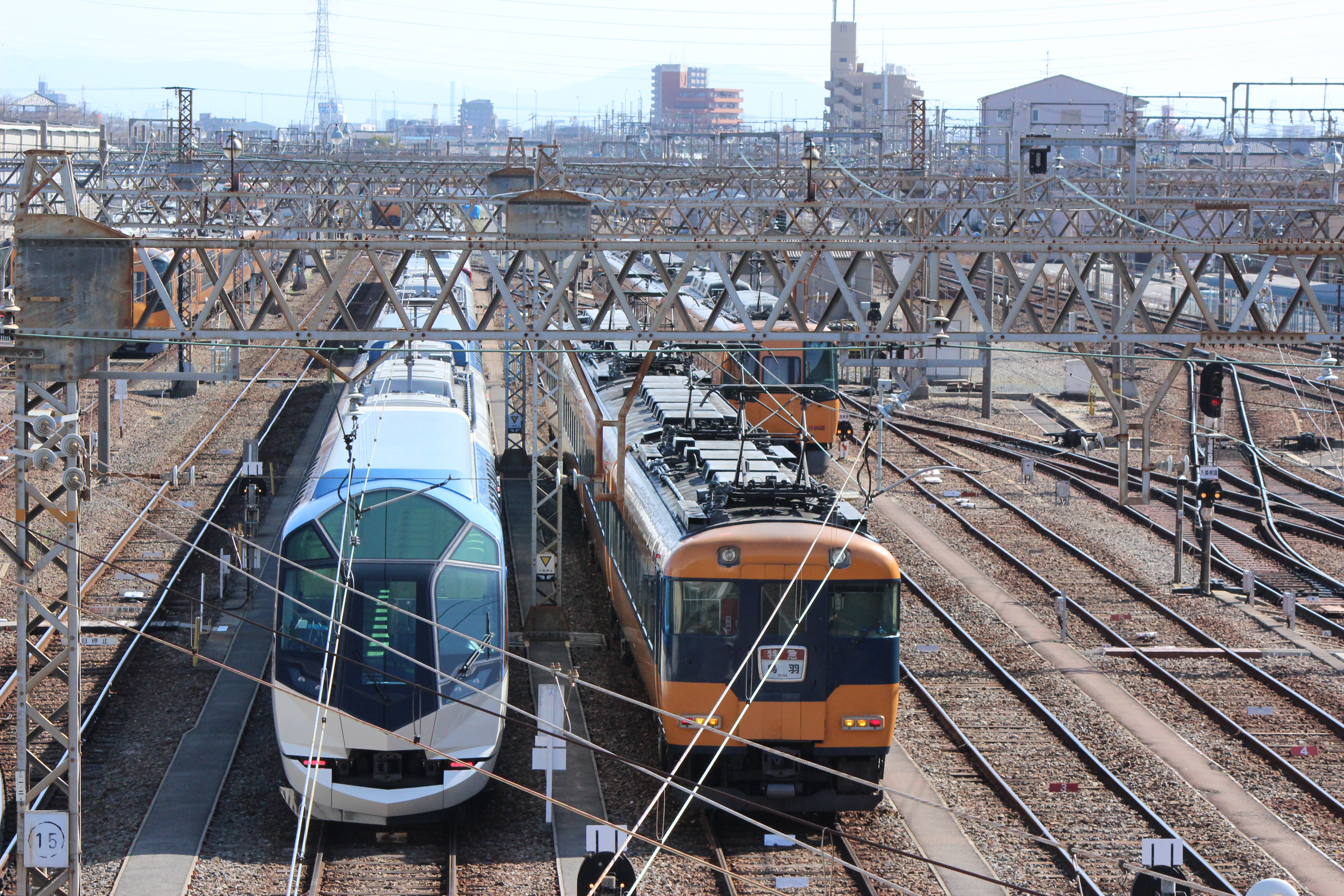 Kintetsu Tomiyoshi Inspection Depot